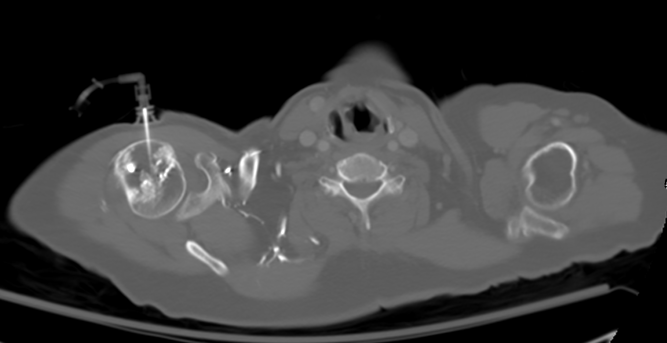 Axial CT with right humeral head EZ IO infusion of contrast.